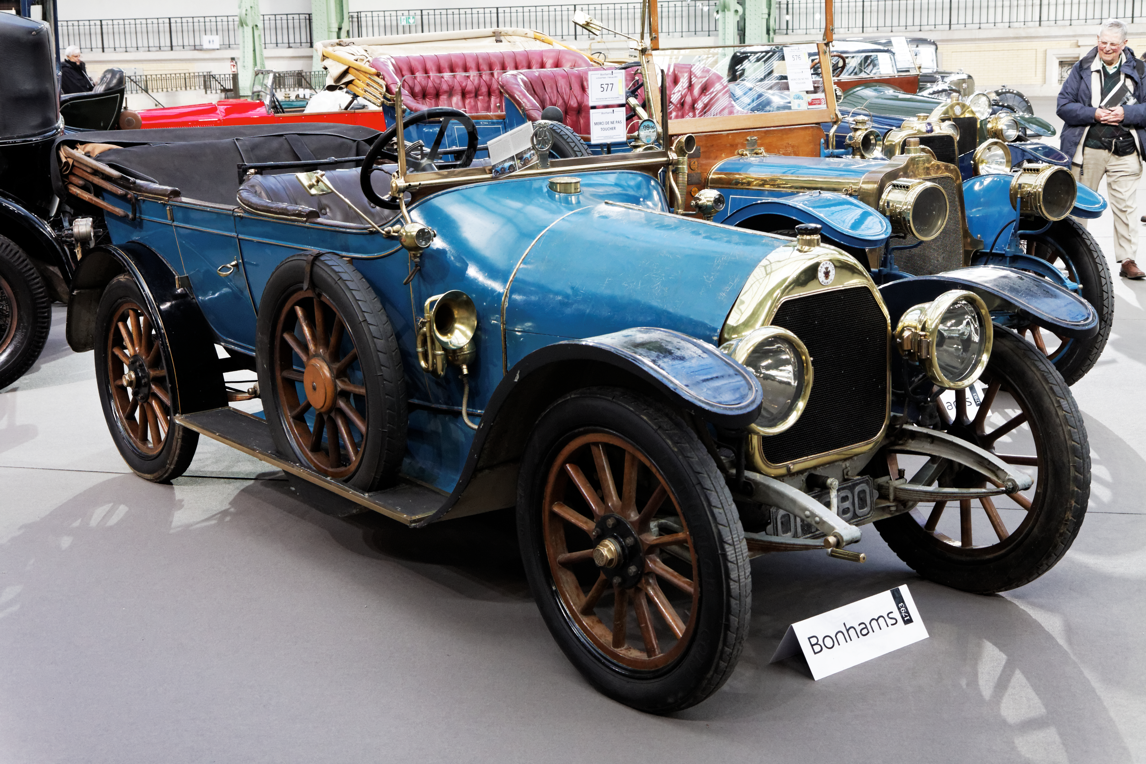 Une Darracq type V14 16 HP torpédo de 1914. chassis 30119 engine 36912 2.9-litre 4-cylinder, C.A.V. electric lighting, folding windscreen, Auster rear screen. source of information